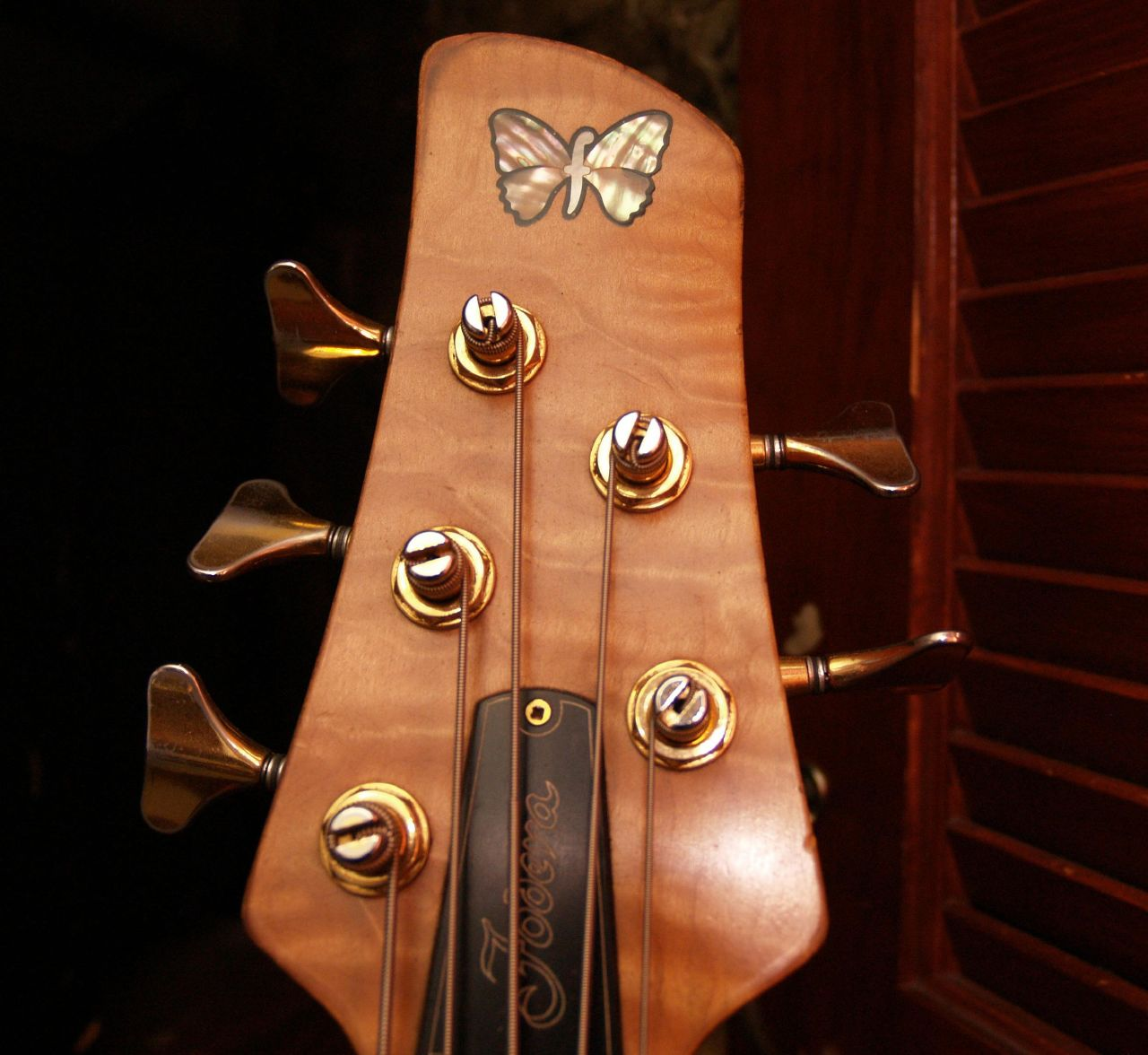 Fodera head